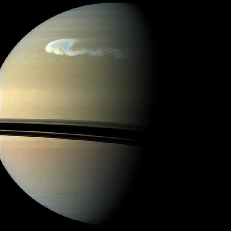 Saturn's Great White Spot storm of 2010-2011, pictured on December 24, 2010 by the Cassini spacecraft. NASA image from . The image may be compared to a photo taken two months later, in February, 2011, in which the spot and its "tail" overlap.